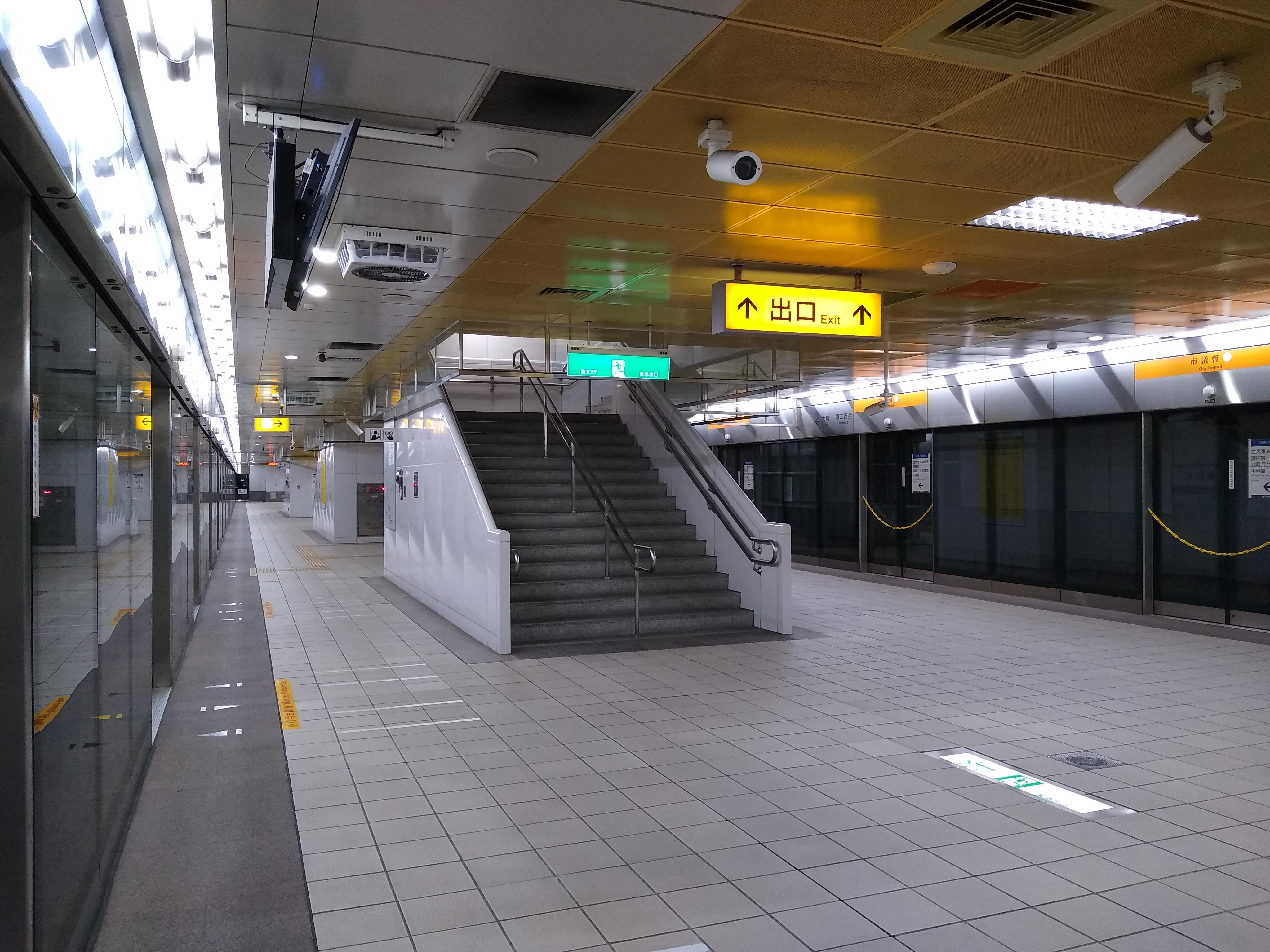 City Council Station (Former site) platform.